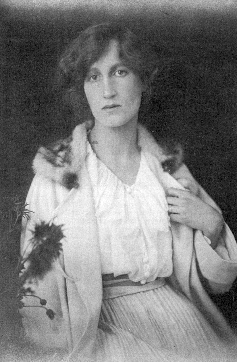 Portrait of British politican and author Violet Bonham Carter, née Asquith.